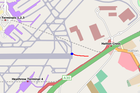 Map showing the location of the Heathrow Airport British Airways Flight 38 plane crash